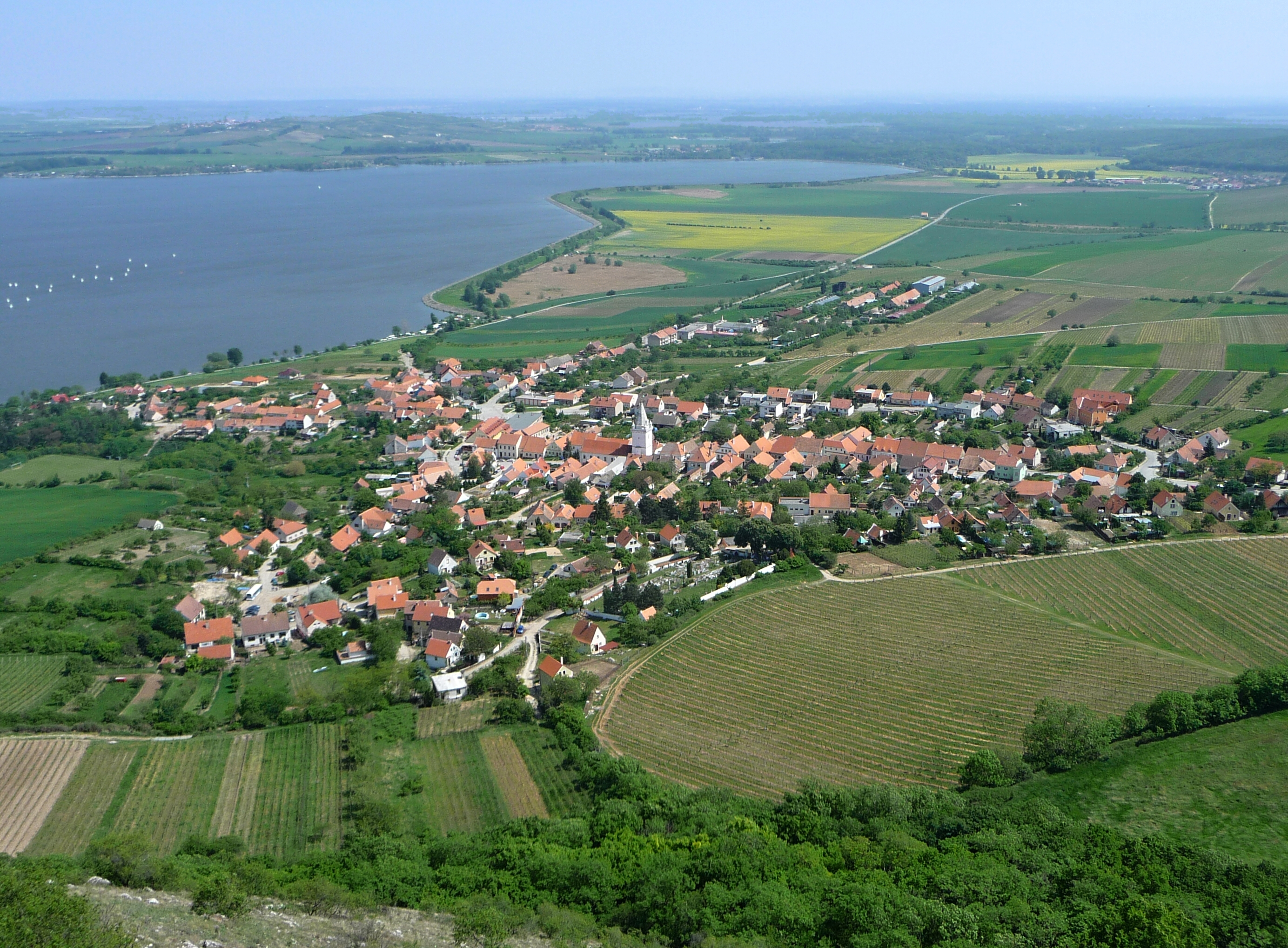 View on Pavlov from the Dívčí hrad (South Moravian Region, Czechia).